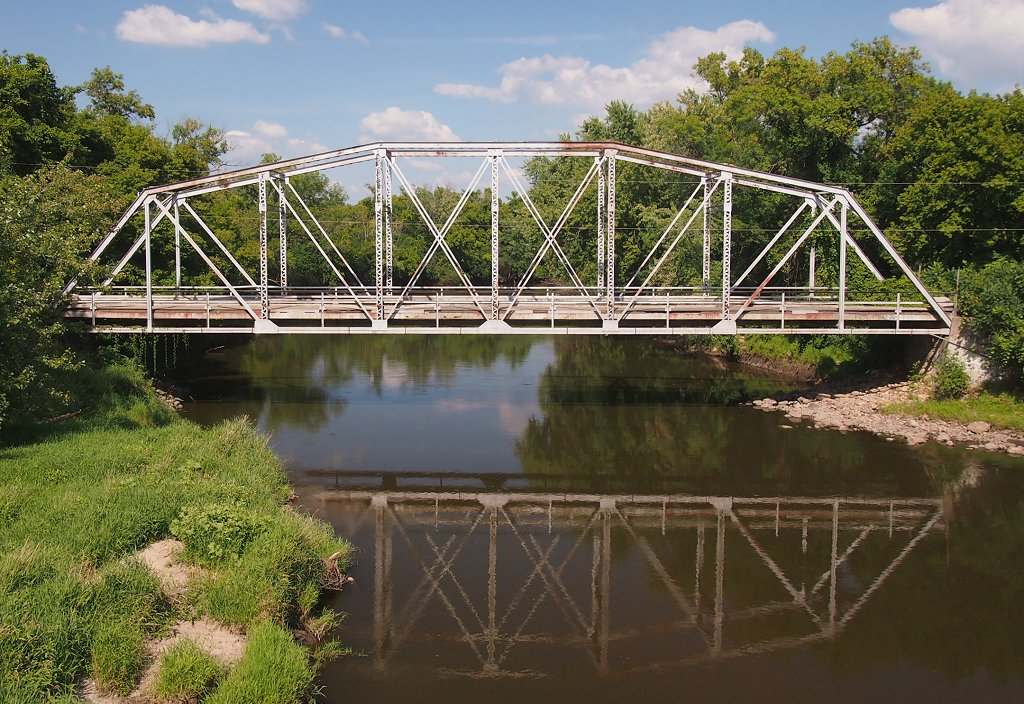 Waterford Bridge (Bridge No. L03275), Waterford Township, Dakota County, Minnesota, USA. Viewed from southwest from Dundas Bridge on Canada Ave over the Cannon River.